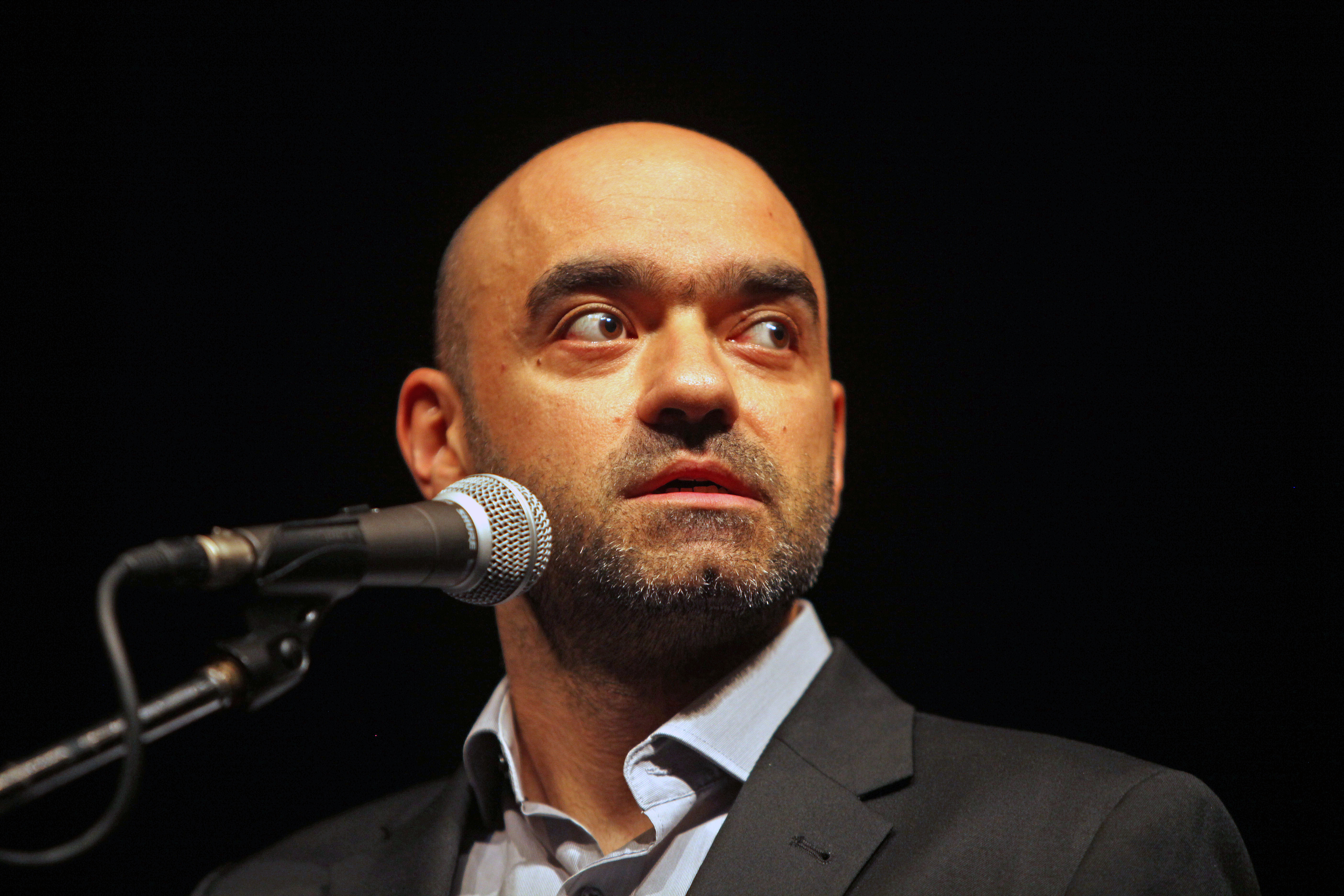 Romanian film director Florin Șerban at the International Film Festival Karlovy Vary, Czech Republic, on 7 July 2015.